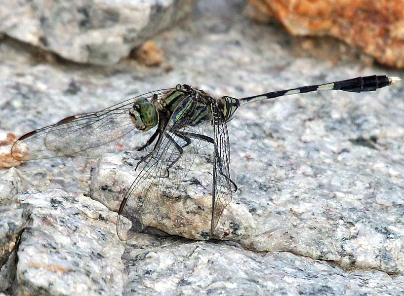 Green Marsh Hawk Orthetrum sabina in Keesara, Rangareddy district, Andhra Pradesh, India.